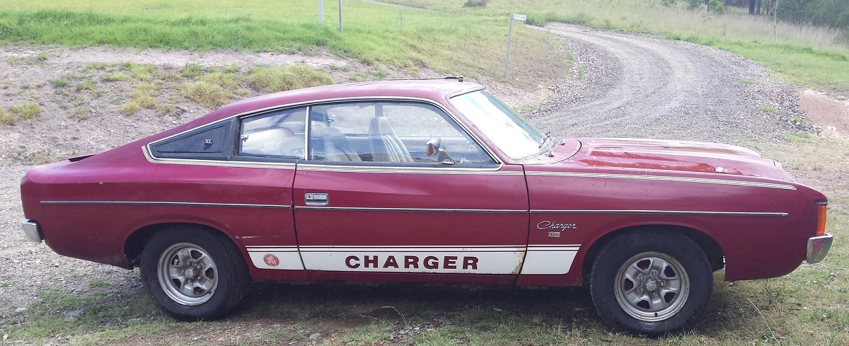 One of the few survivors of the 100 Amarante Red White Knight Specials produced.